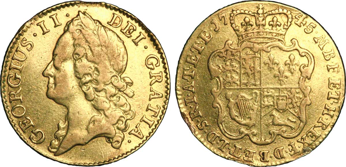 Une Guinée or à l'effigie de Georges II, 1747. Description revers : Écu festonné et couronné écartelé au 1 parti d'Angleterre et d'Écosse, au 2 de France, au 3 d'Irlande, au 4 tranché de Brunswick et de Lunebourg . Traduction revers : (Roi de Grande-Bretagne, de France et d'Irlande, défenseur de la Foi, duc de Brunswick et Lunebourg, archi-trésorier et électeur du Saint-Empire) .